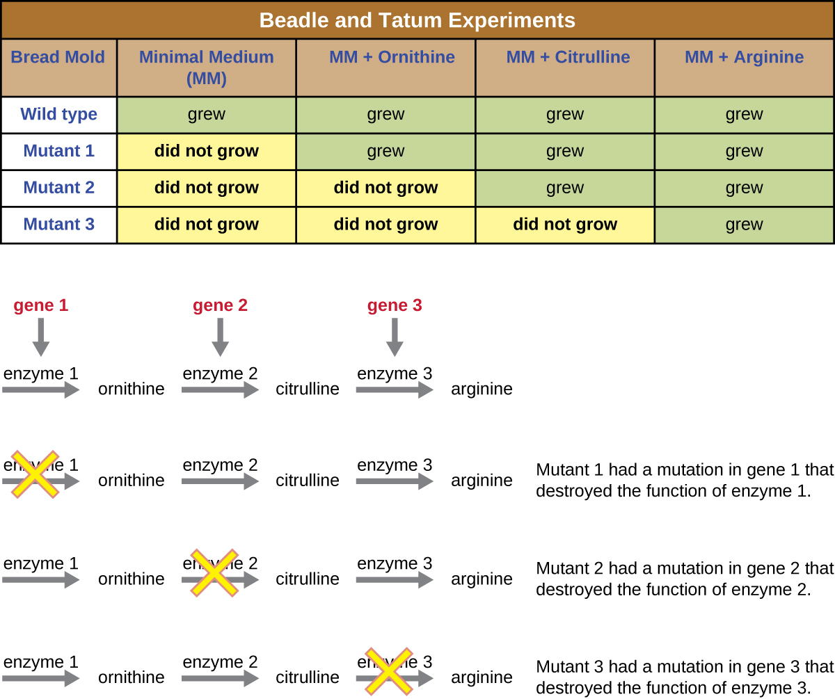 Name: Microbiology ID: Language: English Summary: Subjects: Science and Technology Keywords: Print Style: License: Creative Commons Attribution License (by 4.0) Authors: OpenStax Microbiology Copyright Holders: OpenStax Microbiology Publishers: OpenStax Microbiology Latest Version: 4.4 First Publication Date: Oct 17, 2016 Latest Revision: Nov 11, 2016 Last Edited By: OpenStax Microbiology